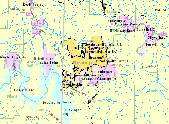 U.S. Census 2000 reference map for Branson